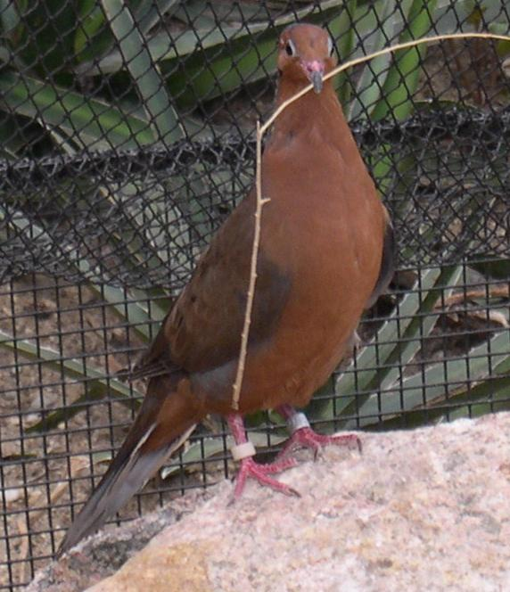 A Socorro Dove (Zenaida graysoni) in Burgers Zoo, Arnhem, The Netherlands.